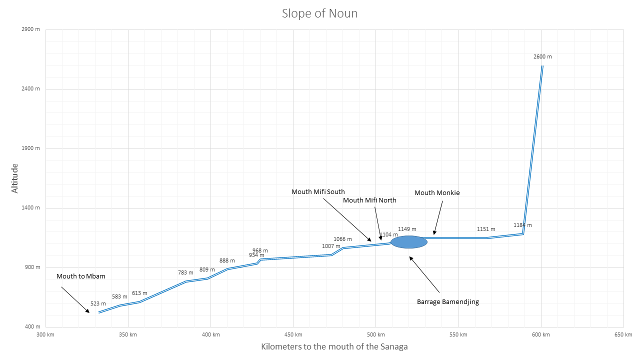 Slope of Noun River; Data source * J. C. Olivry, Fleuves et rivières du Cameroun, collection « Monographies hydrologiques », no 9, ORSTOM, Paris, 1986